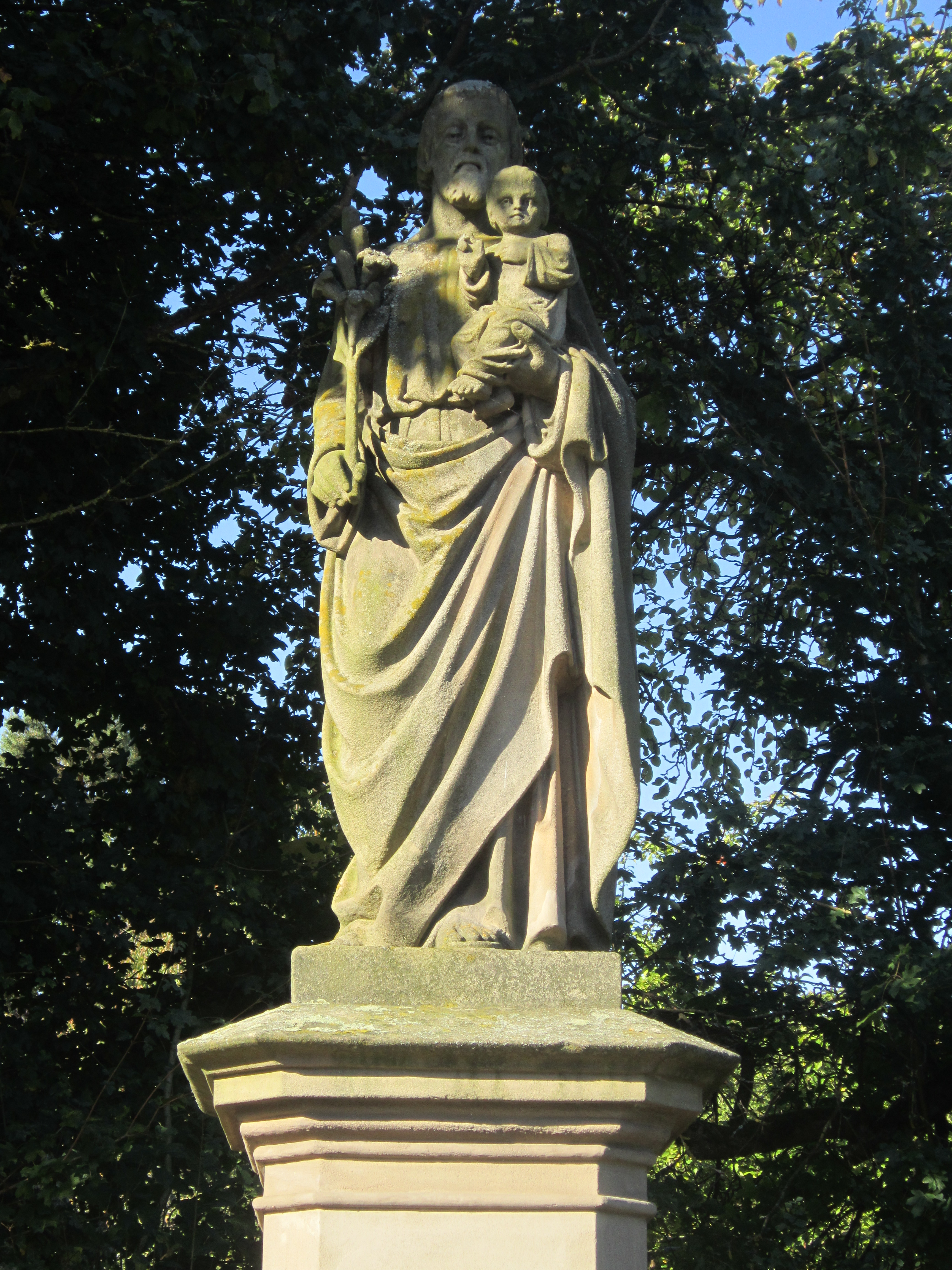 Statue of St. Joseph located in Hausen, a quarter of the German spa town of Bad Kissingen (Lower Franconia, Bavaria).